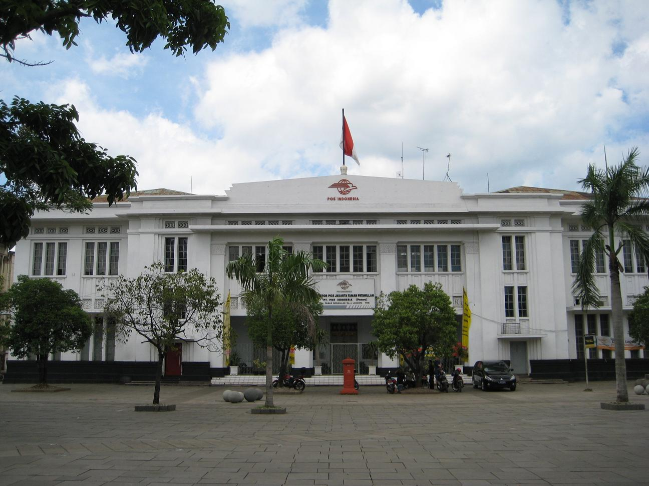 One of Post Office in Jakarta with colonial architecture